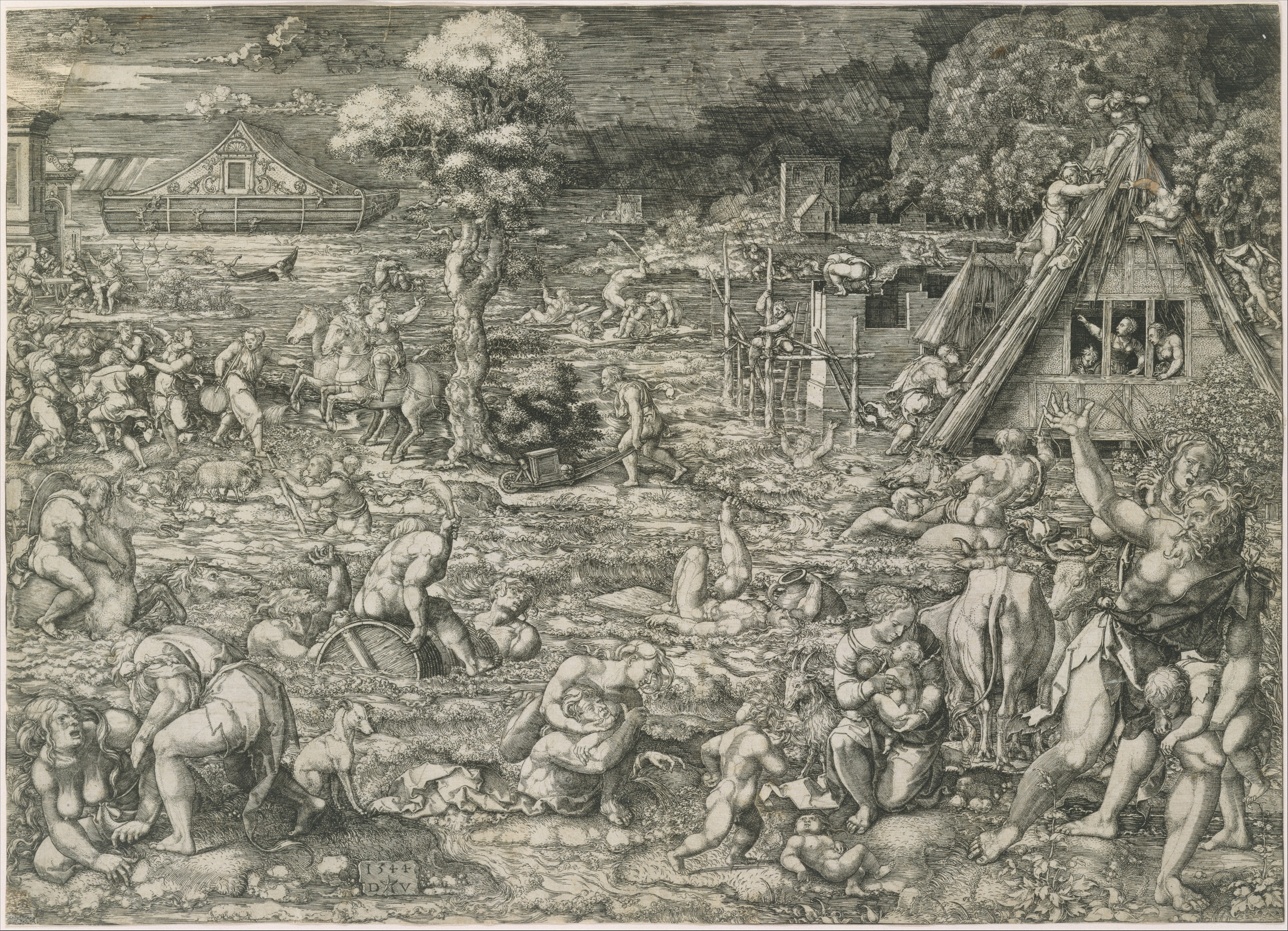 Print; Prints